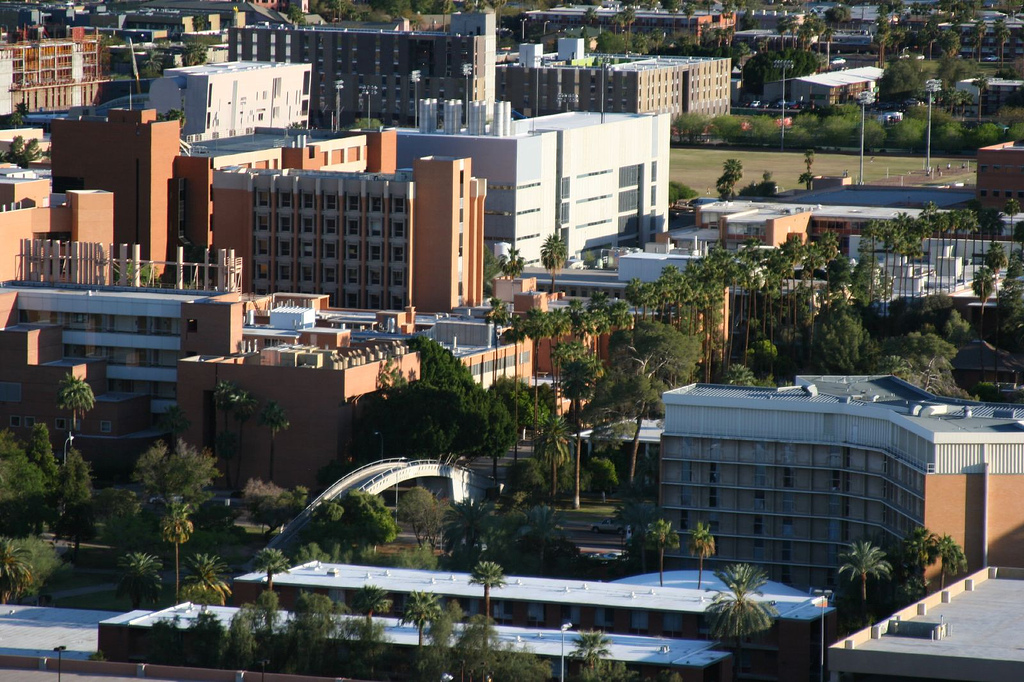 Arizona State University campus as seen from Hayden Butte